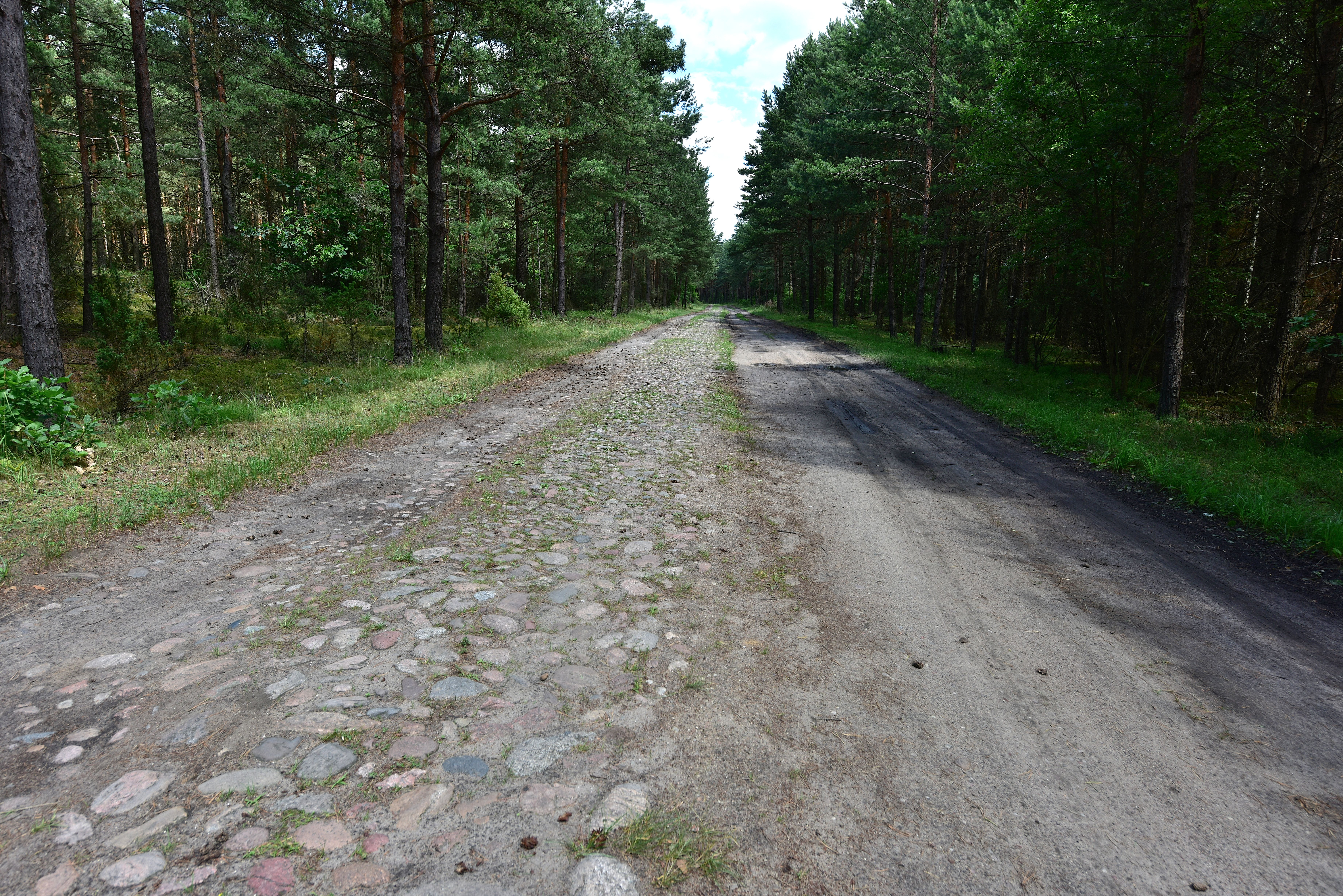 Road between camps Treblinka I and Treblinka II